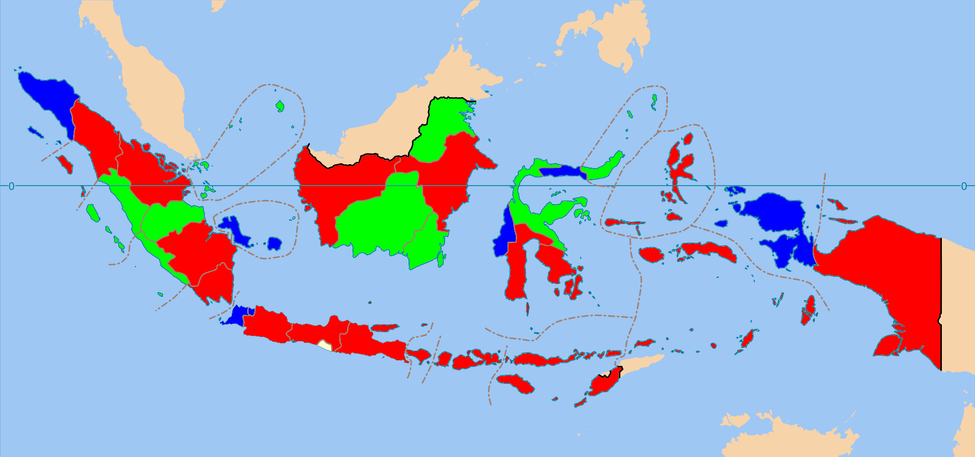 Indonesian Provinces by year of gubernatorial elections Green: 2015 Blue: 2017 Red: 2018 Note that the years of city/regency elections vary. The Special Region of Yogyakarta does not hold gubernatorial elections by law.